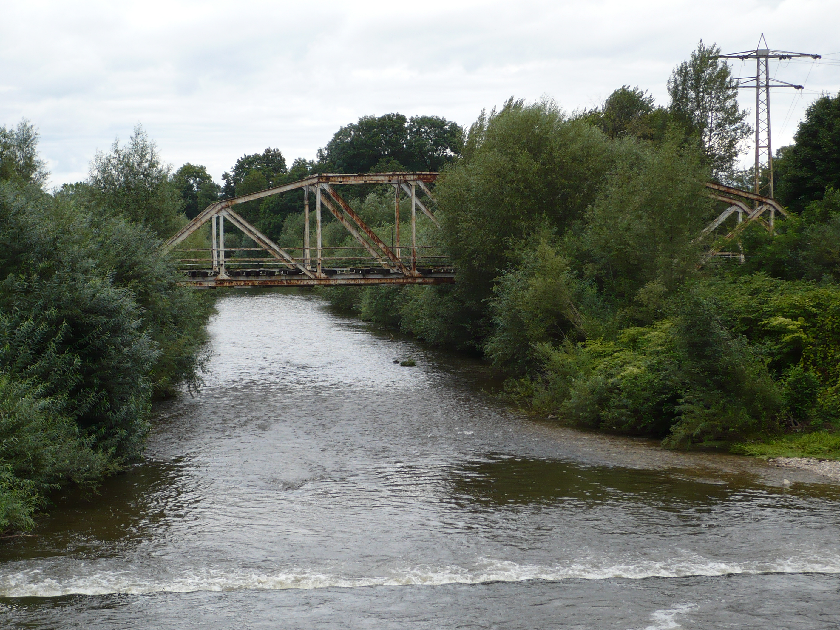 Abandoned railway bridge over Biała Głuchołaska (Czech: Bělá